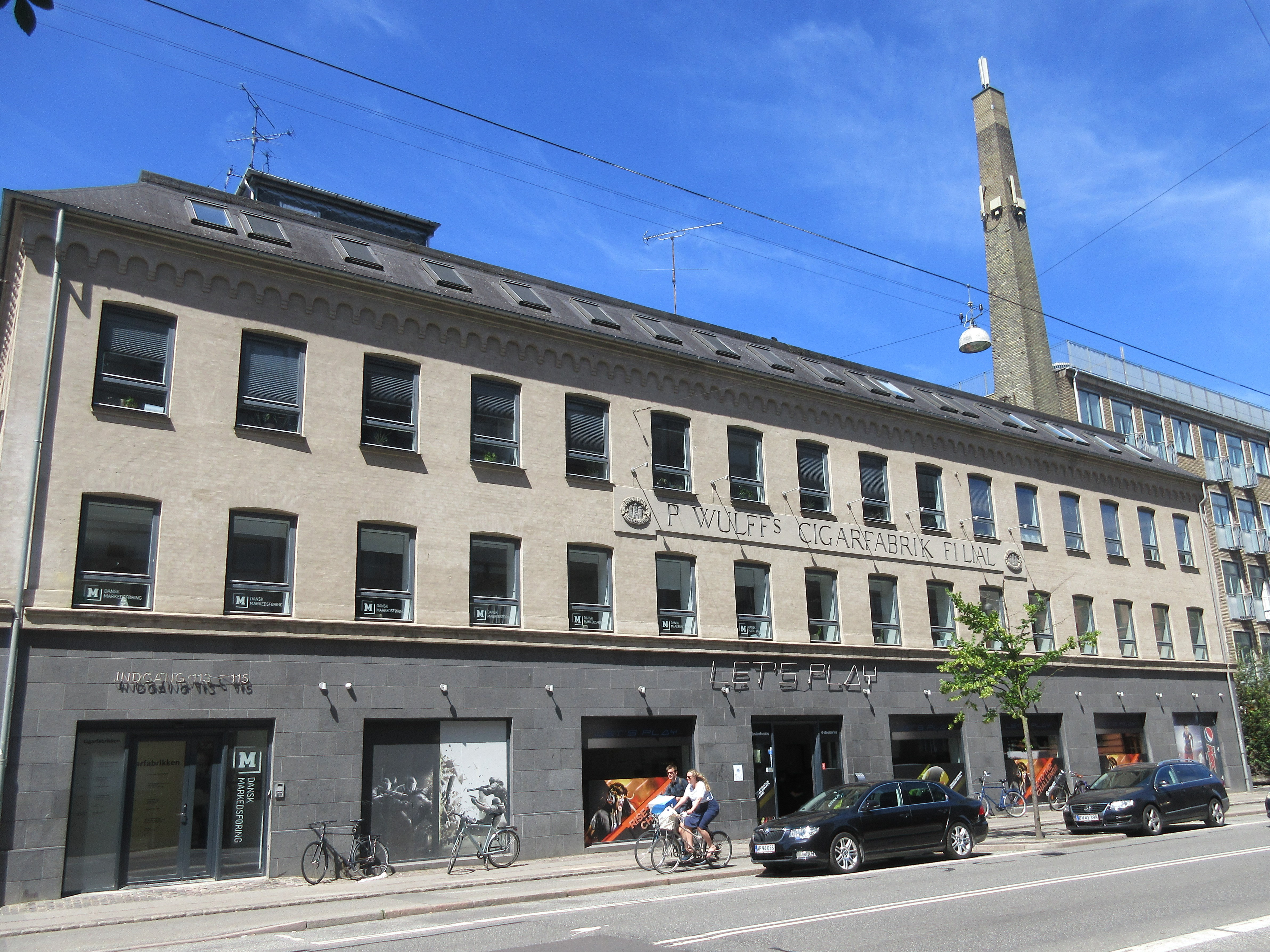 P. Wulffs Cigarfabrik on Nordre Fasanvej in Copenhagen, Denmark